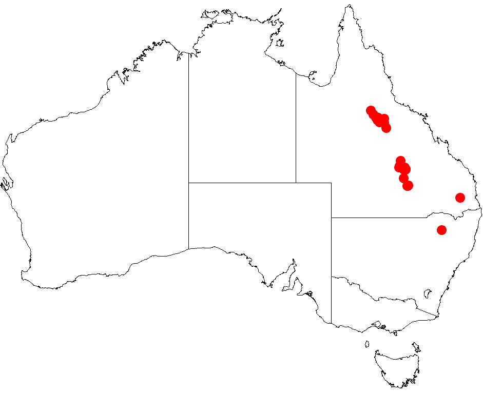 Acacia uncifera occurrence data from Australasian Virtual Herbarium downloaded from on December 8 2018